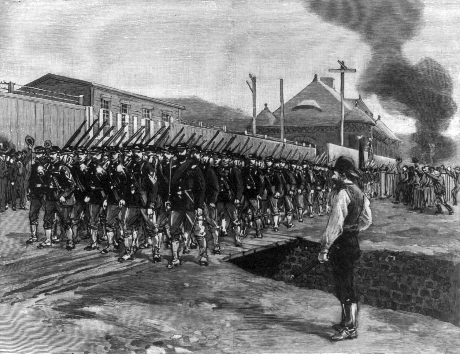 Illus. in: Harper's Weekly, 1892 July 23.